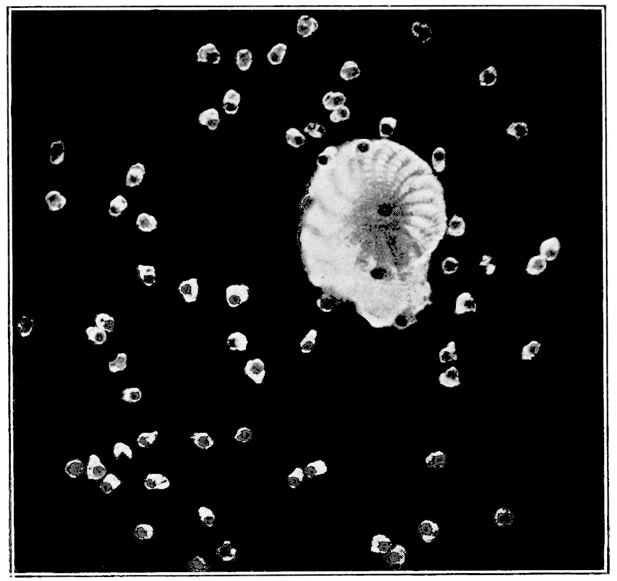 Polystomella crispa